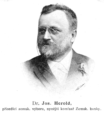 Portrait of Josef Herold (1850-1908), Czech politician. Cropped from a gallery of directors and commissioners of Zemská Banka království Českého (State Bank of the Czech Kingdom); out of the 17 pictures on that page, 15 were taken by Jan Nepomuk Langhans (1851-1928) and one each by Moritz Adler (1849-1920) and Moritz Ludwig Winter (1824-1899) [1] but it is not clear who took this particular one. The photo is also watermarked by printmaker Jan Vilím (1856-1923)